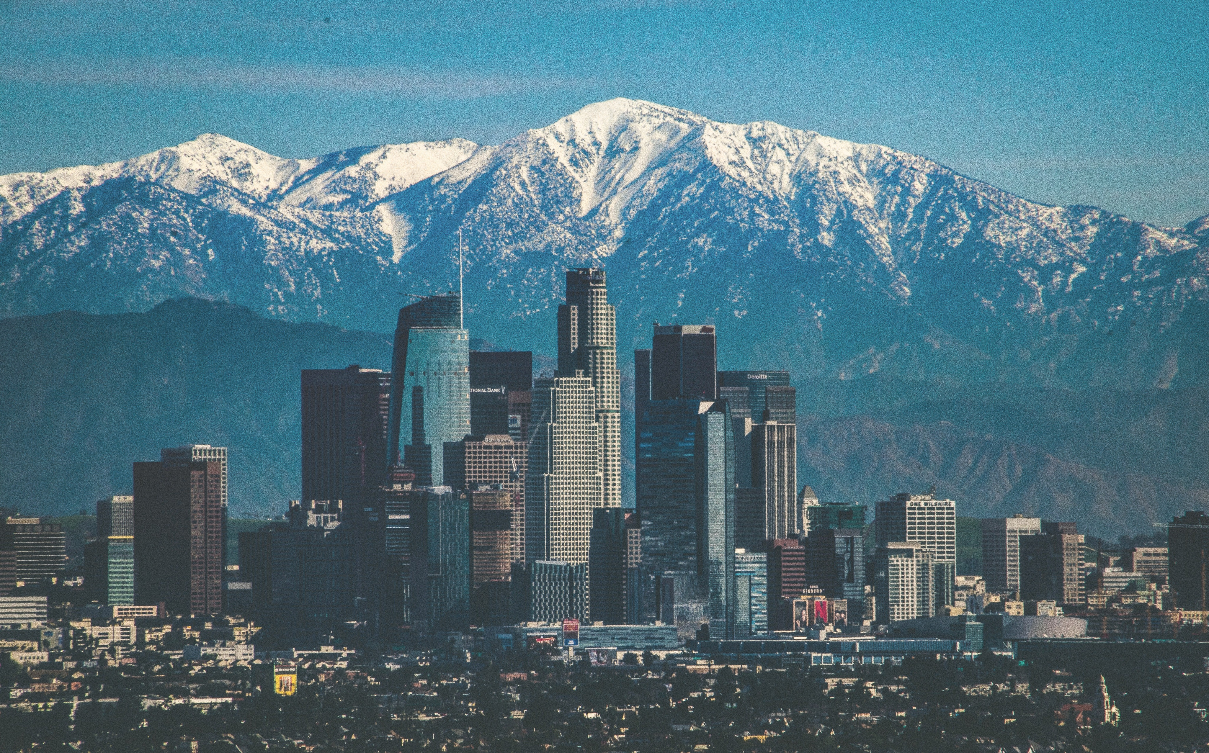 Los Angeles skyline and San Gabriel mountains.